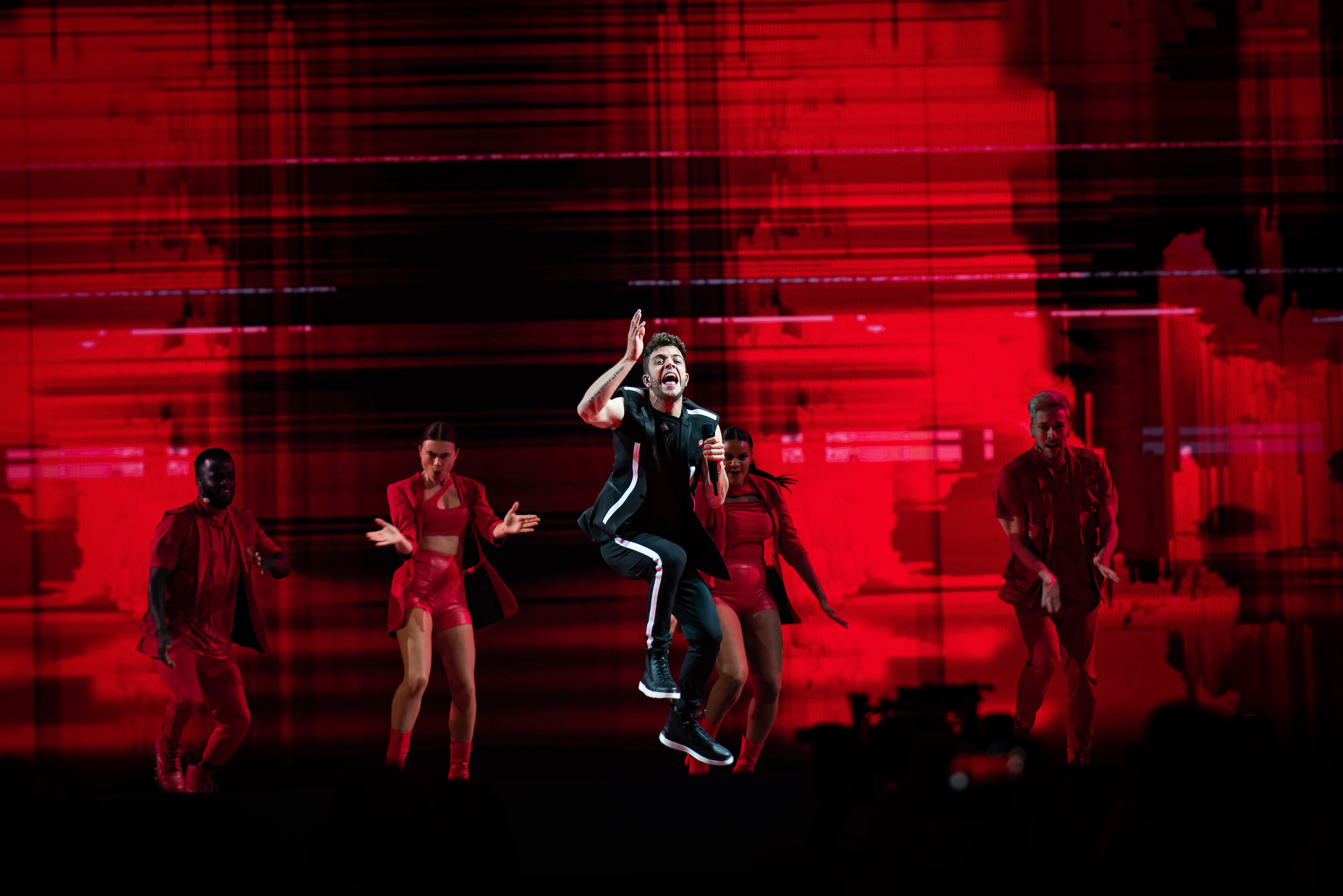 Luca Hänni representing Switzerland with the song "She Got Me" during a rehearsal before the grand final of the Eurovision Song Contest 2019 in Tel-Aviv.